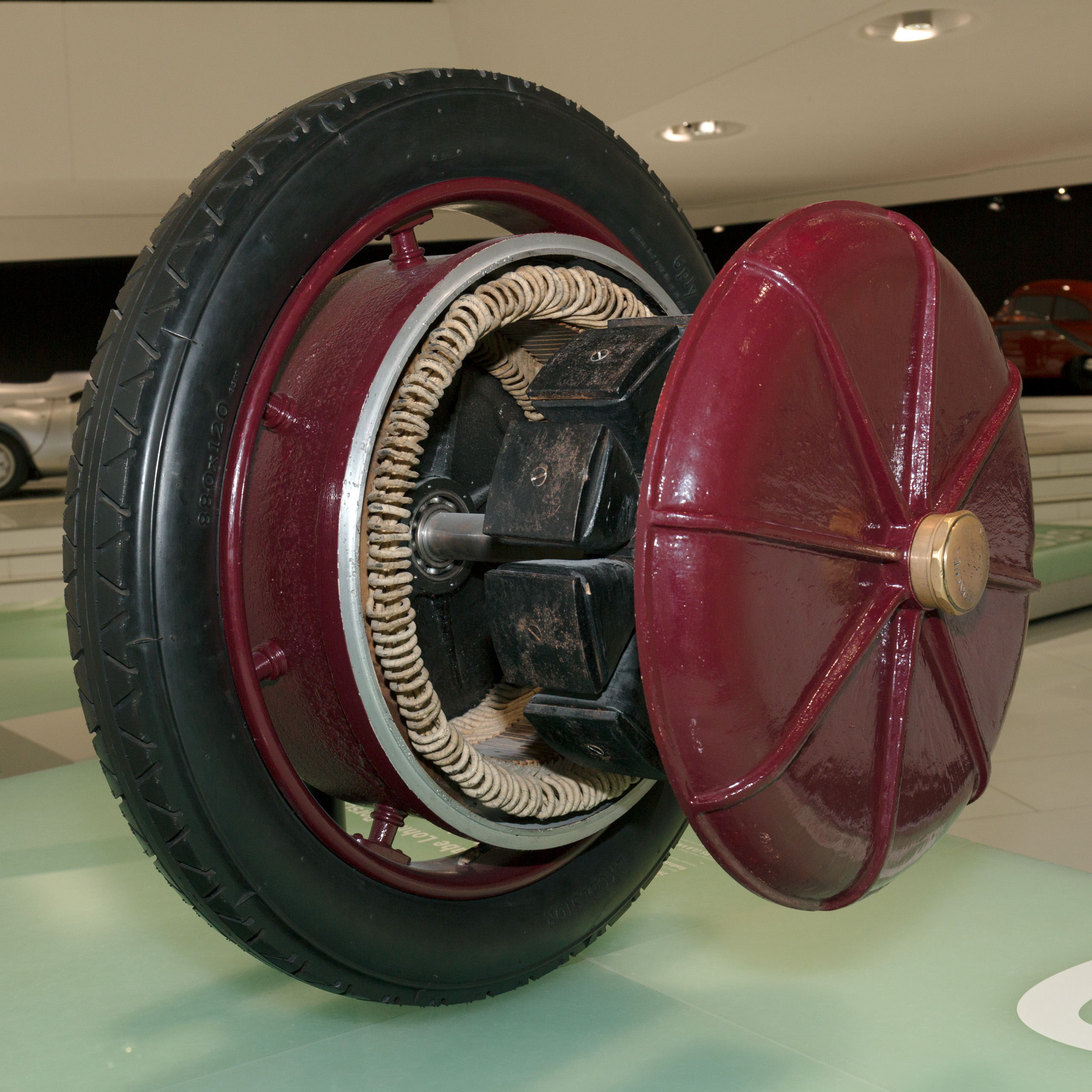 1900 Lohner-Porsche electric wheel-hub motor